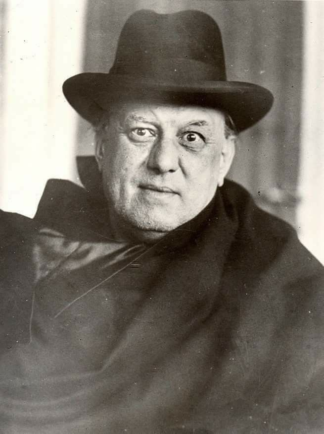 Aleister Crowley - 1929